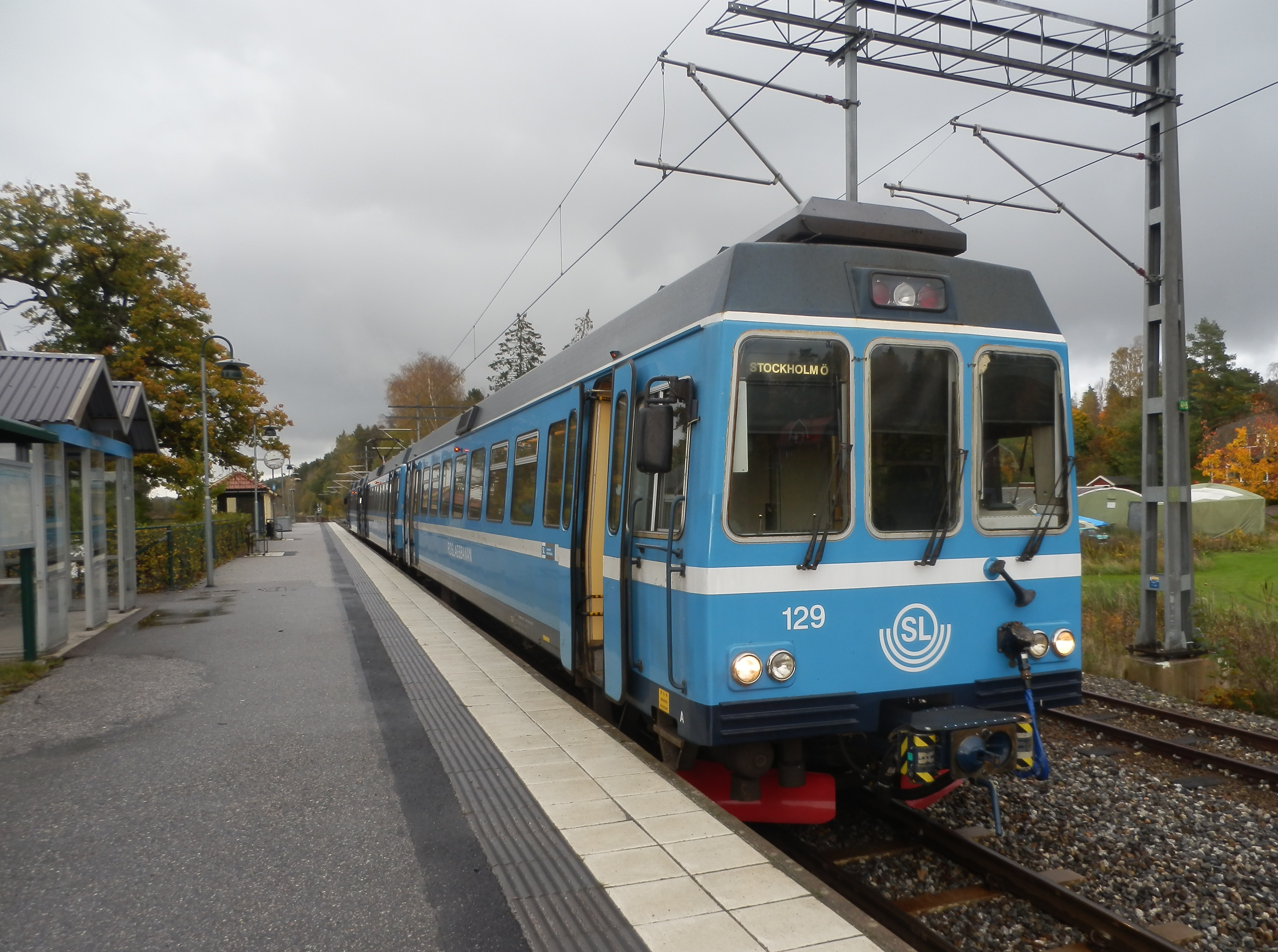 An X10p train at Kårsta station, Uppland, Sweden, october 2010. Since 1981, Kårsta is one of the three end stations at Roslagsbanan.